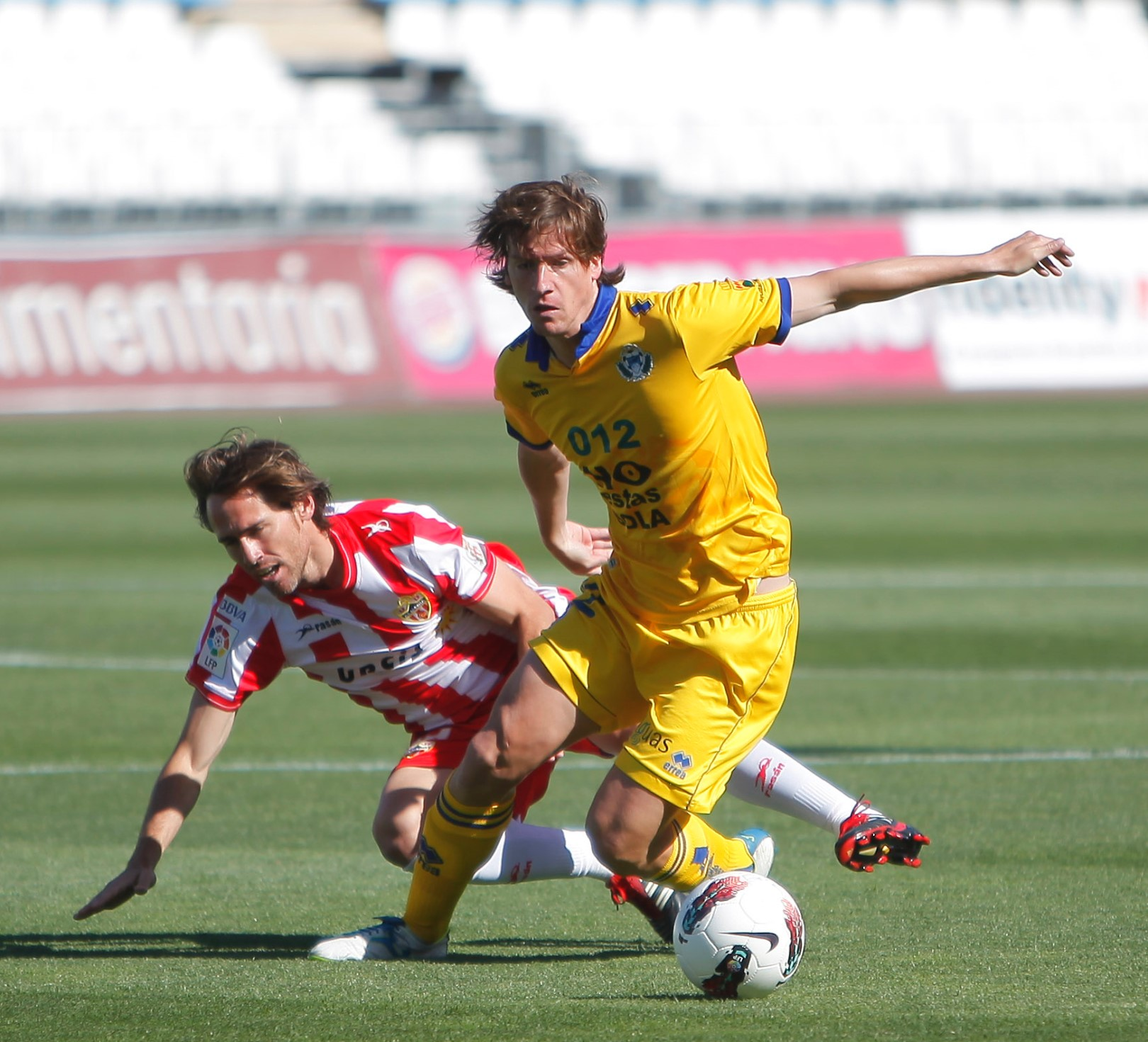 Borja Pérez with A.D. Alcorcón